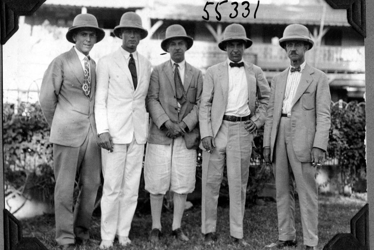 Five expedition members, all wearing ties (2 with bow ties) and pith helmets. Wilfred Osgood at far right, Louis Agassiz Fuertes in middle. 1927. Name of Expedition: Daily News Abyssinian Expedition Participants: Wilfred Osgood, Louis Agassiz Fuertes, C. Suydam Cutting, Jack Baum, Alfred M. Bailey Expedition Start Date: September 7, 1926 Expedition End Date: May 20, 1927 Purpose or Aims: Zoology Mammals and Birds Location: Africa, Ethiopia [Abyssinia] Original material: 4x5 inch interpositive film Digital Identifier: CSZ55331 Learn more about The Field Museum's Library Photo Archives.